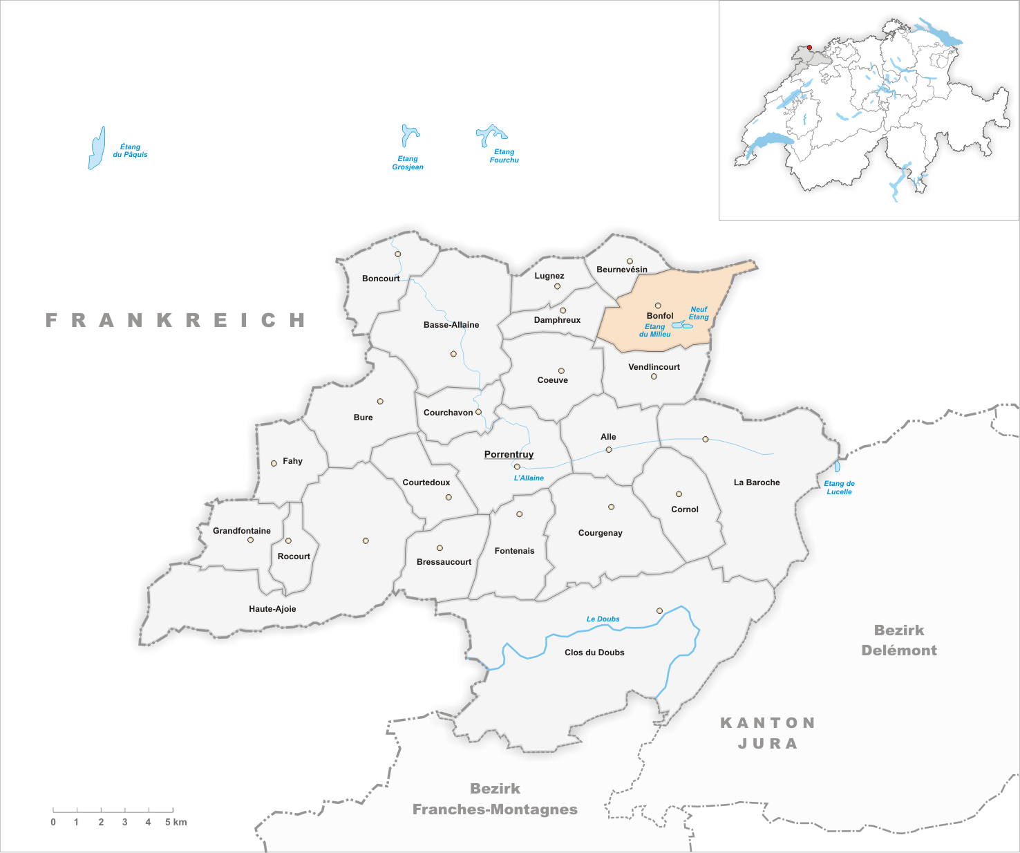 Municipality Bonfol